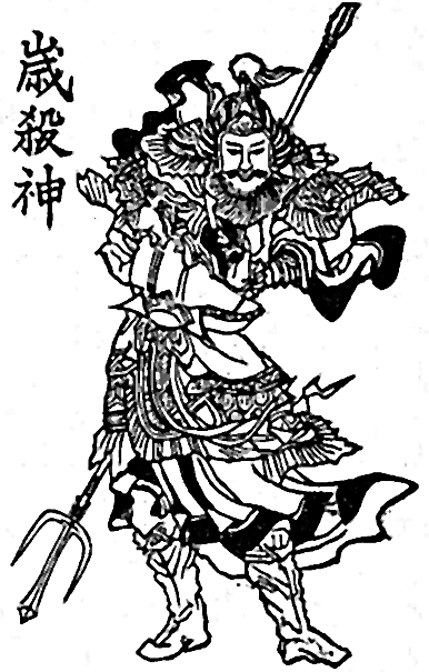 God of Saisatsu. 歳殺神